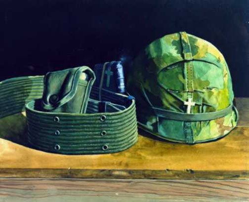 CHAPLAIN MARTINS BIBLE by Stephen H. Sheldon, CAT III, 1967, Courtesy of the National Museum of the U.S. Army